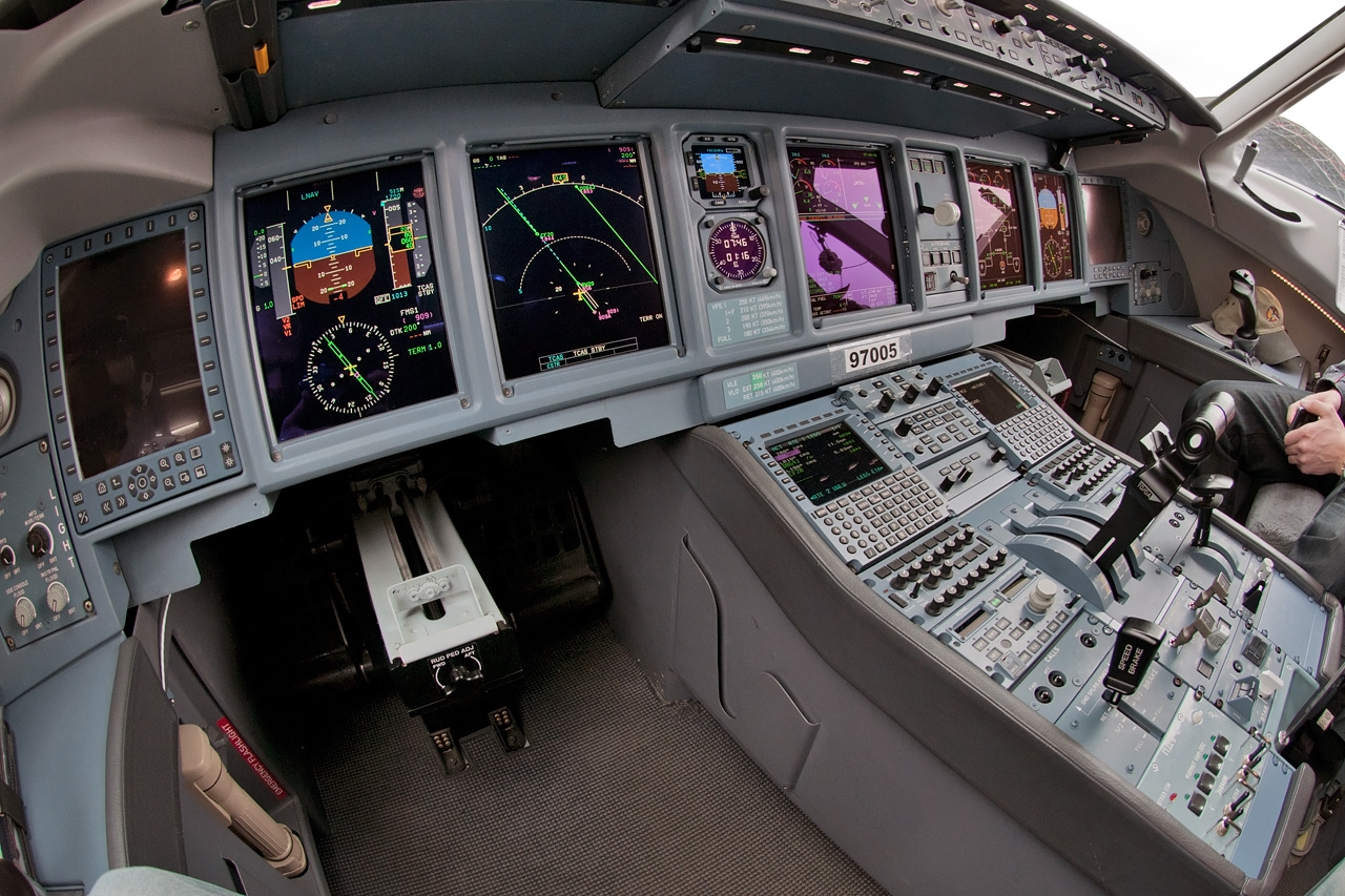 Sukhoi Superjet 100-95 97005 (cn 95005)